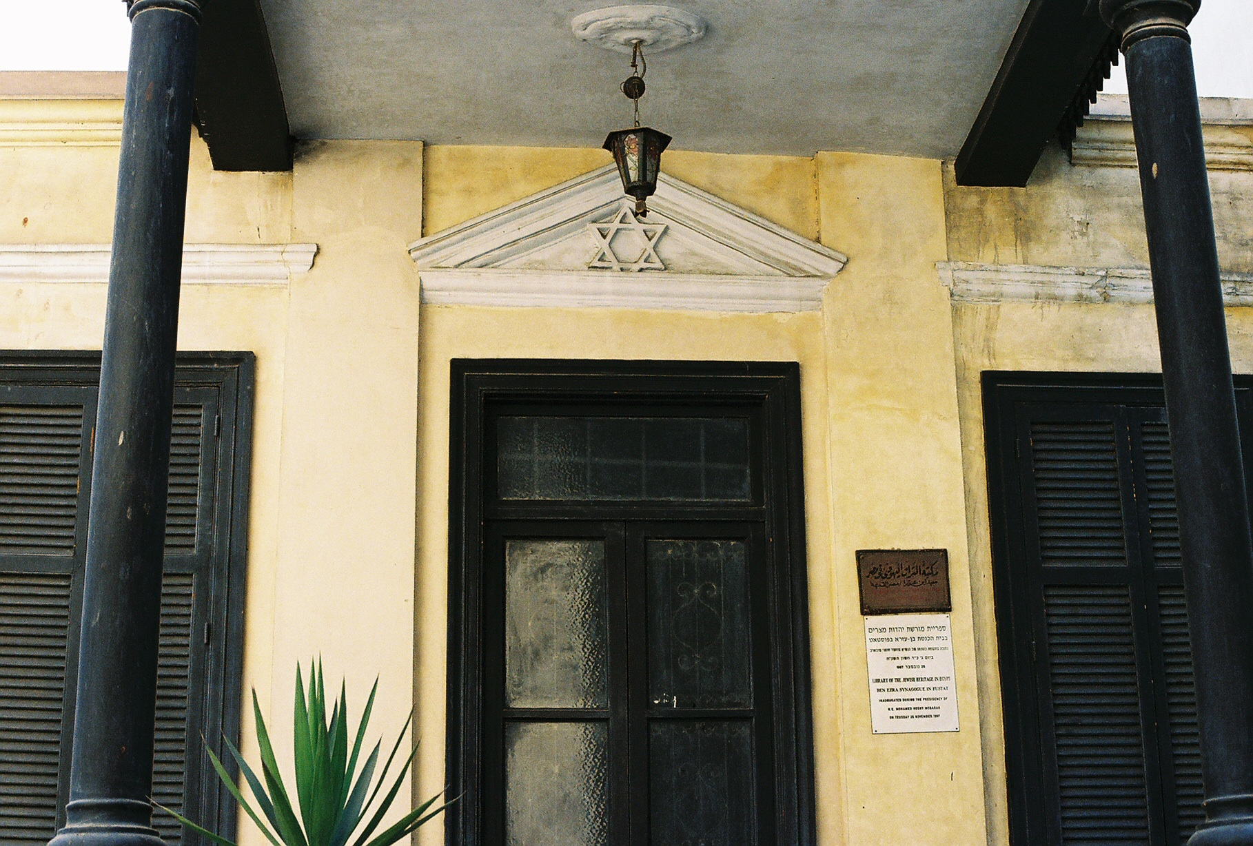 Annex of the Library of Jewish Heritage in Egypt at Ben Ezra Synagogue